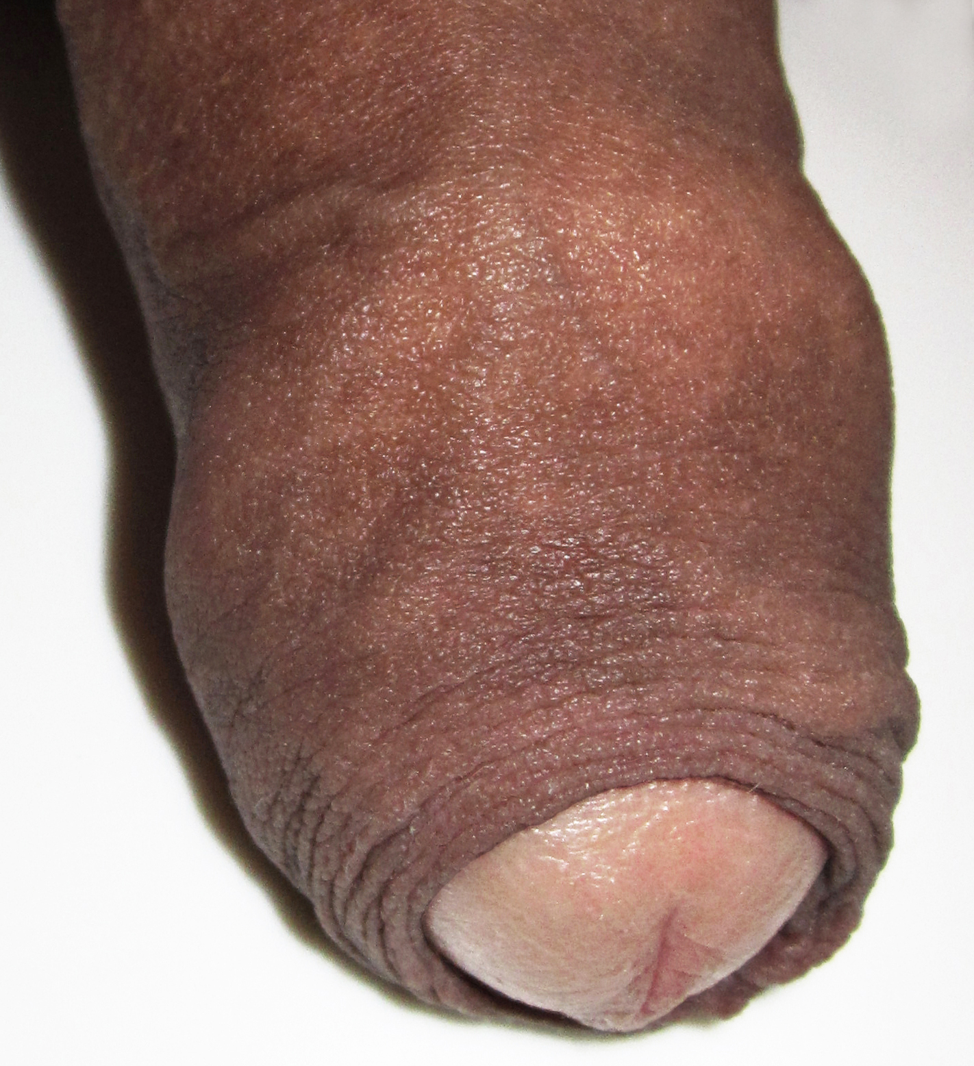 Foreskin of a human penis with frenulum and meatus visible